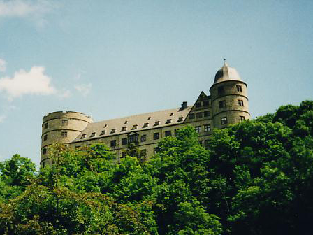 Wewelsburg in Germany